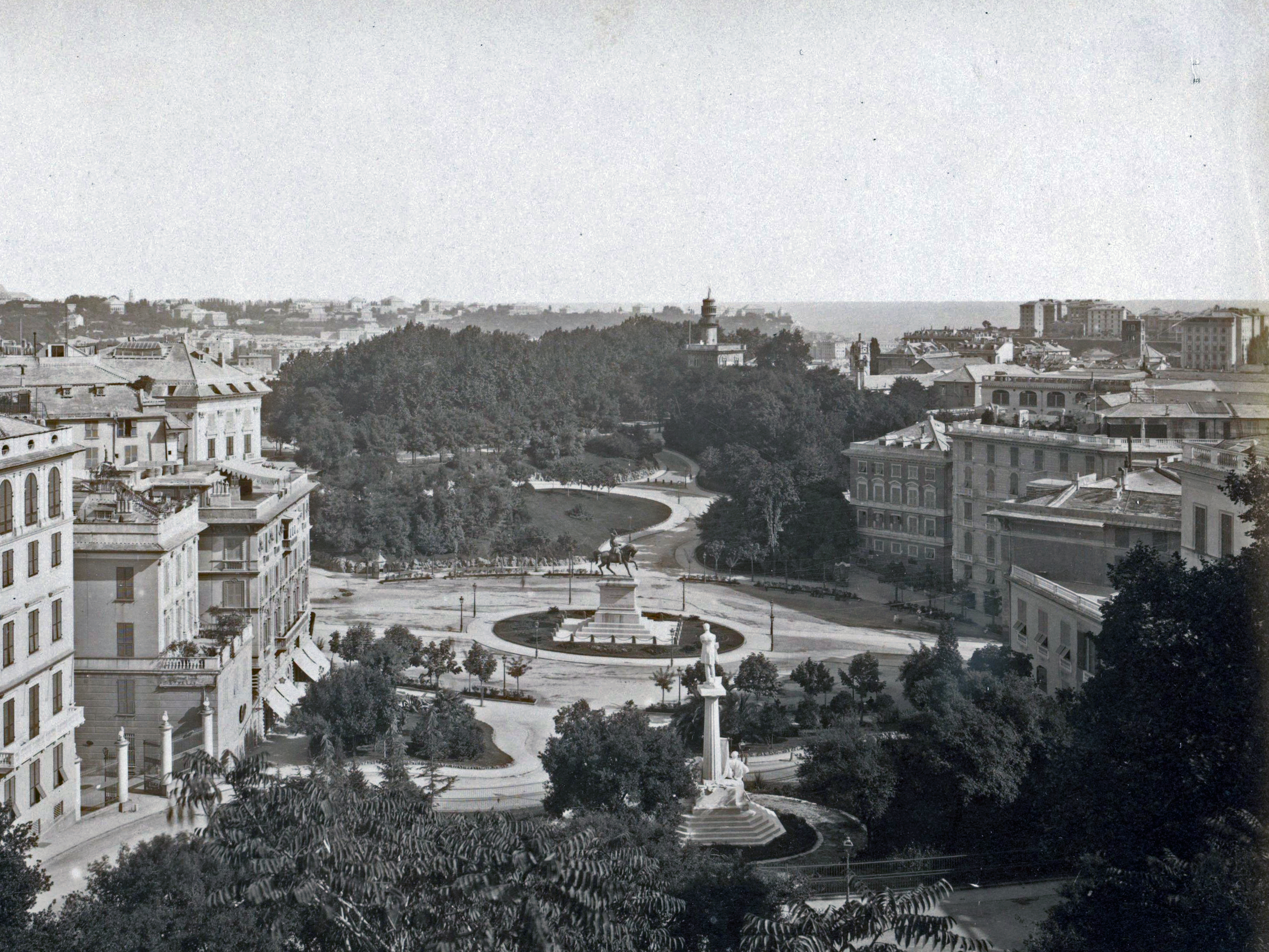 Acquasola and Piazza Corvetto, from Villetta di Negro, Genoa, Italy (late 1800s).